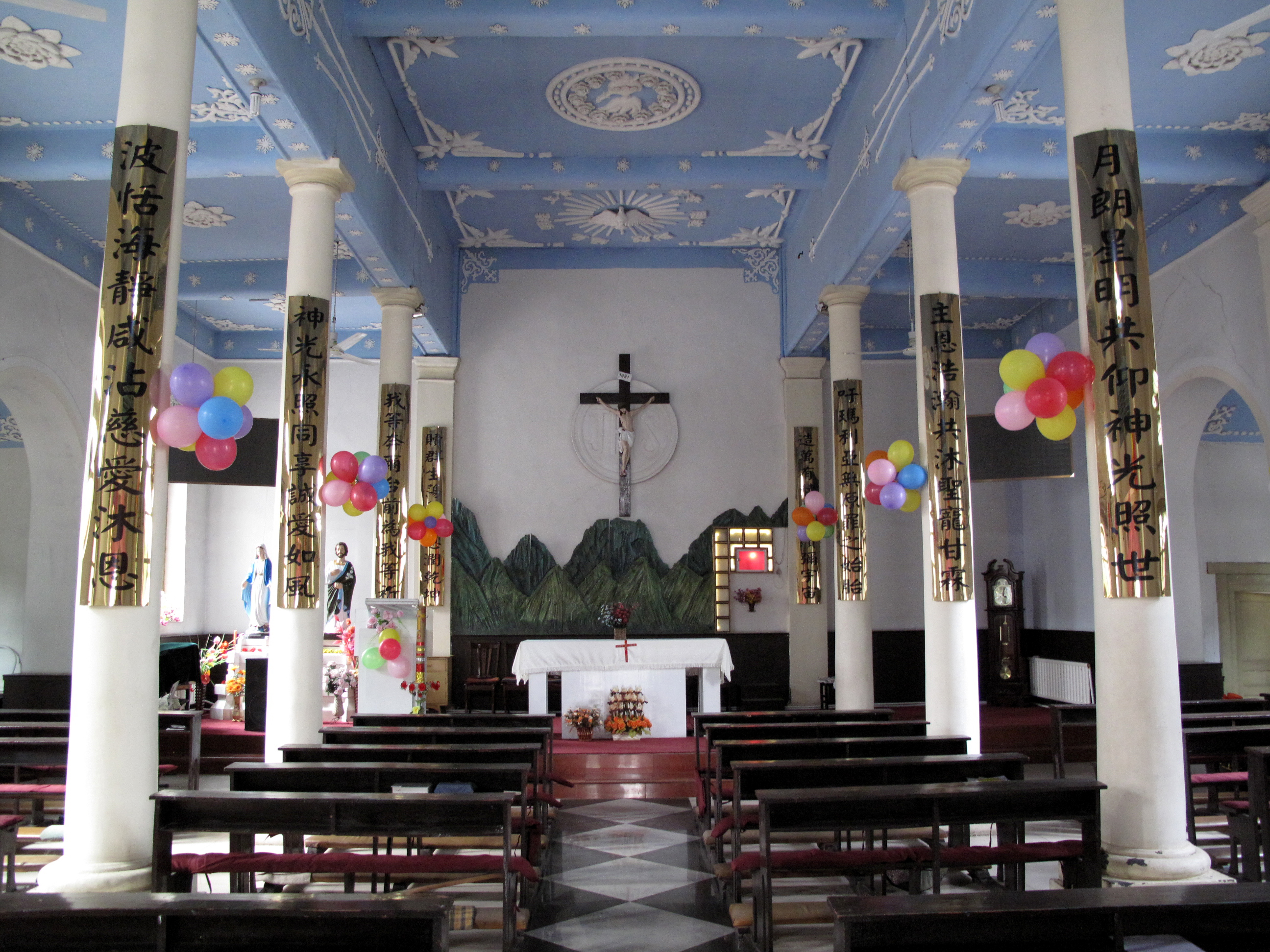 Interior. Cathedral Of The Immaculate Heart Of Mary, Datong The simple interior is decorated with white columns and walls, below a Wedgwood-blue ceiling. The balloons seen here are displayed in honor of the Feast of the Ascension, which happened to fall during our visit.